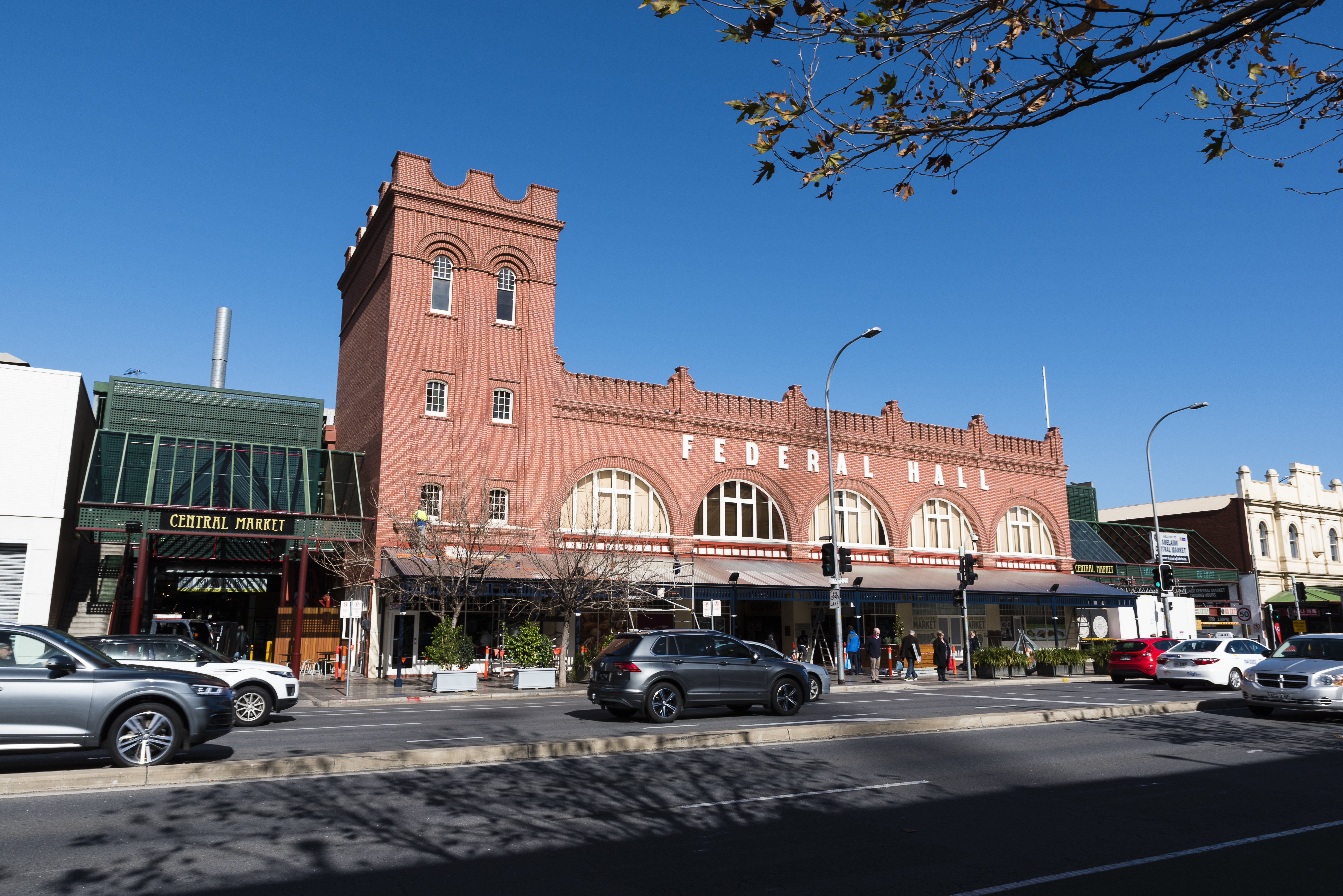 Adelaide Central Market Grote Street Facade - restored 2018